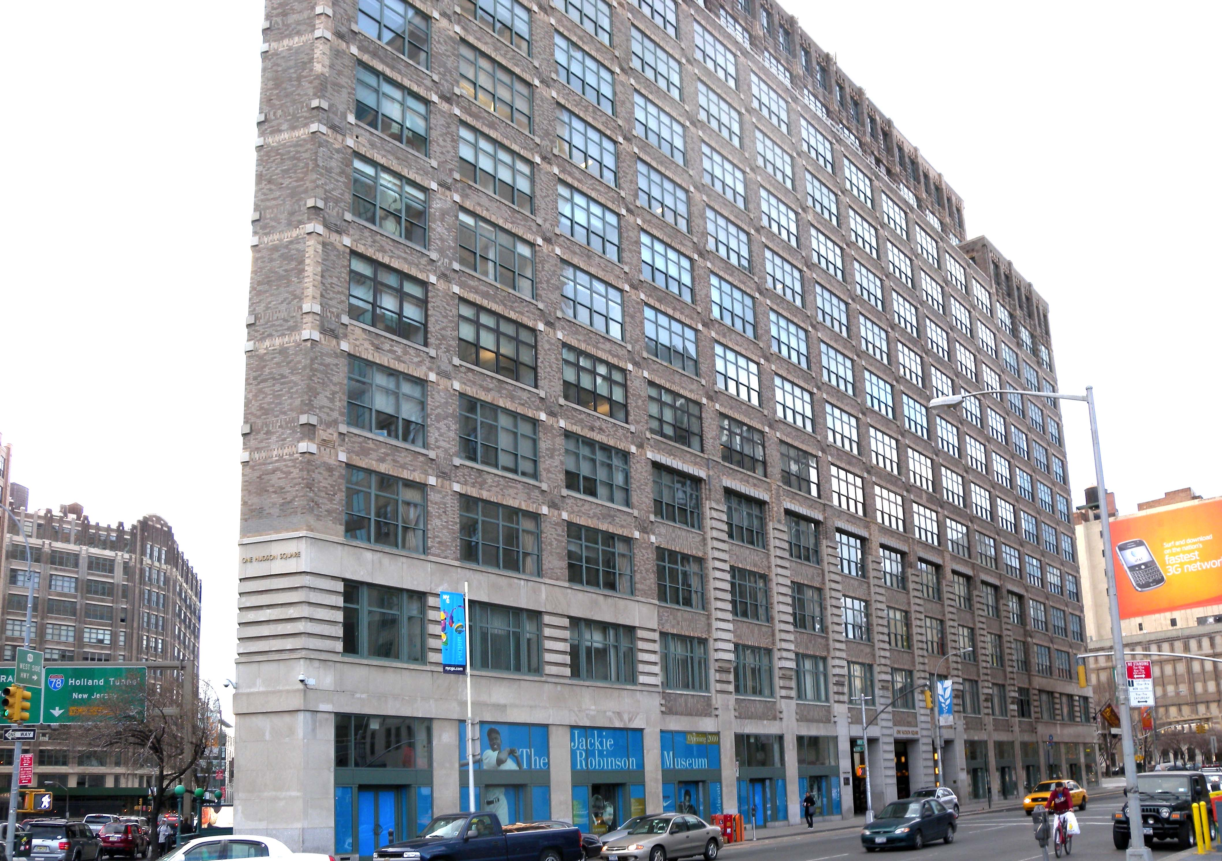 Looking northwest across Varick Street at the future Jackie Robinson Museum on the north side of Canal Street on a cloudy afternoon.